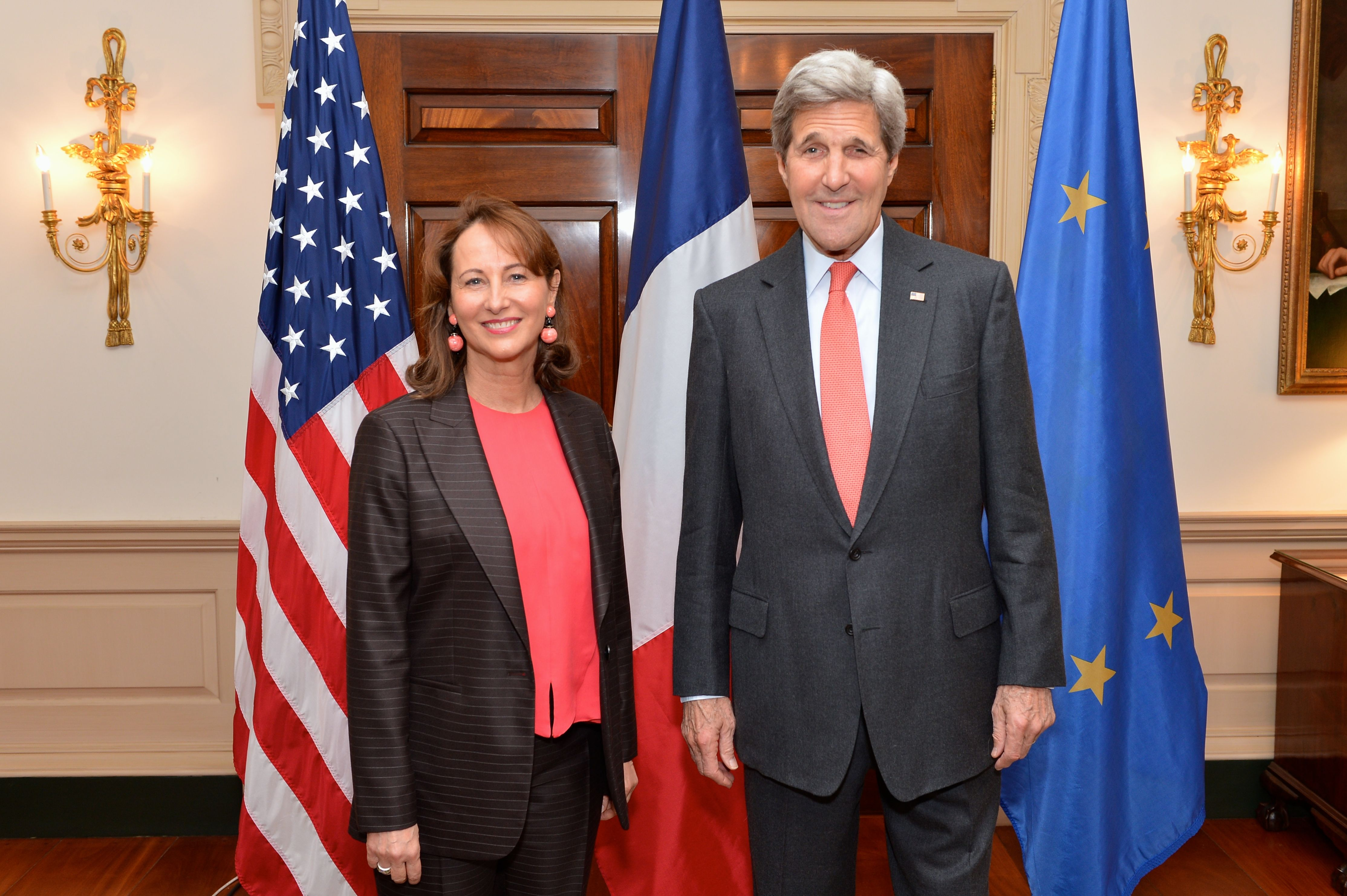 U.S. Secretary of State John Kerry poses for a photo with French Minister of the Environment, Energy and Marine Affairs Ségolène Royal before their bilateral meeting at the U.S. Department of State in Washington, D.C., on April 15, 2016. [State Department photo/ Public Domain]